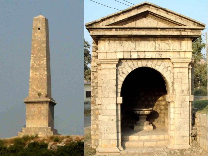 Nicholsons Monument